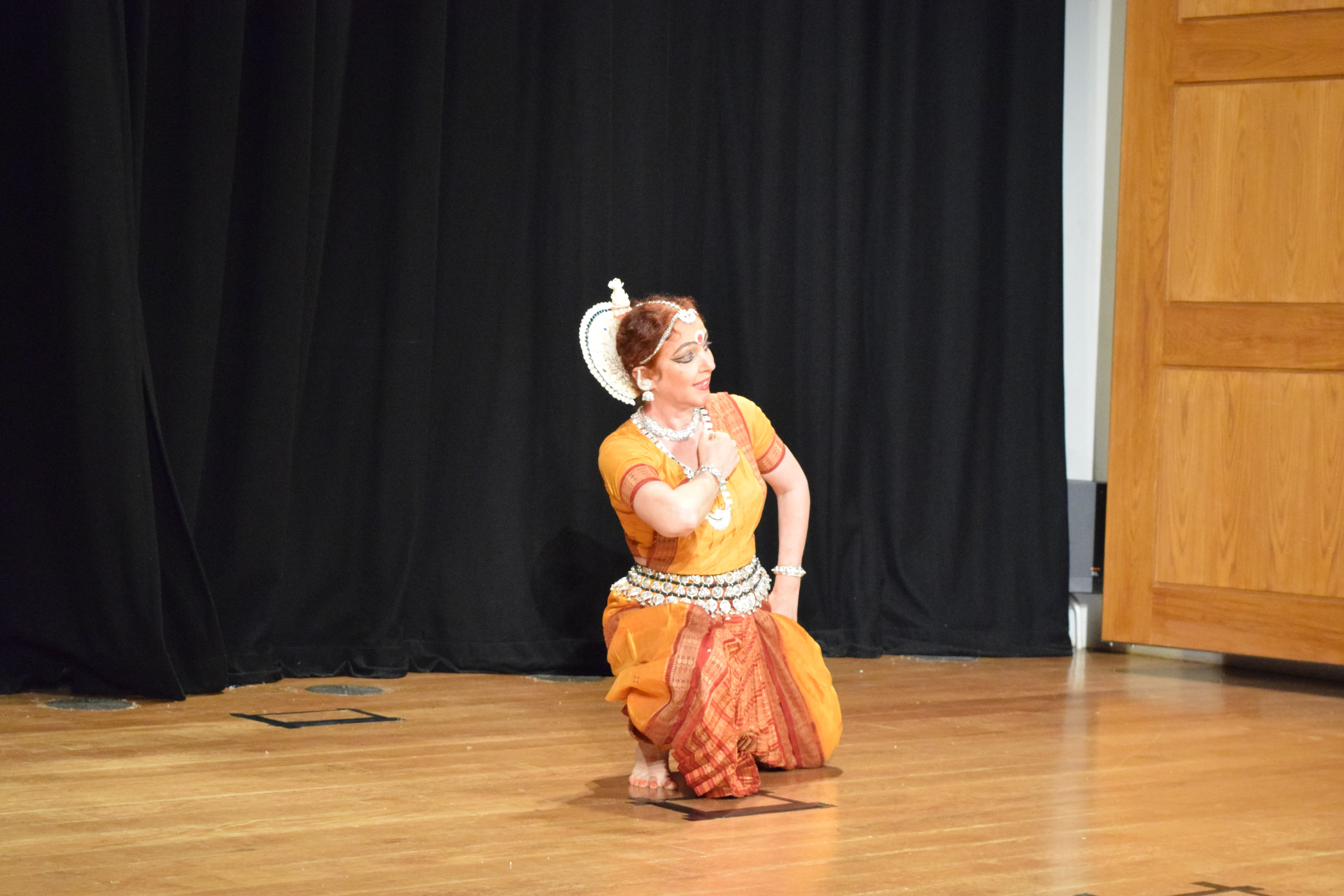 Eminent dancer Ileana Citaristi performing at an Oxford Odissi Centre event at University of Oxford